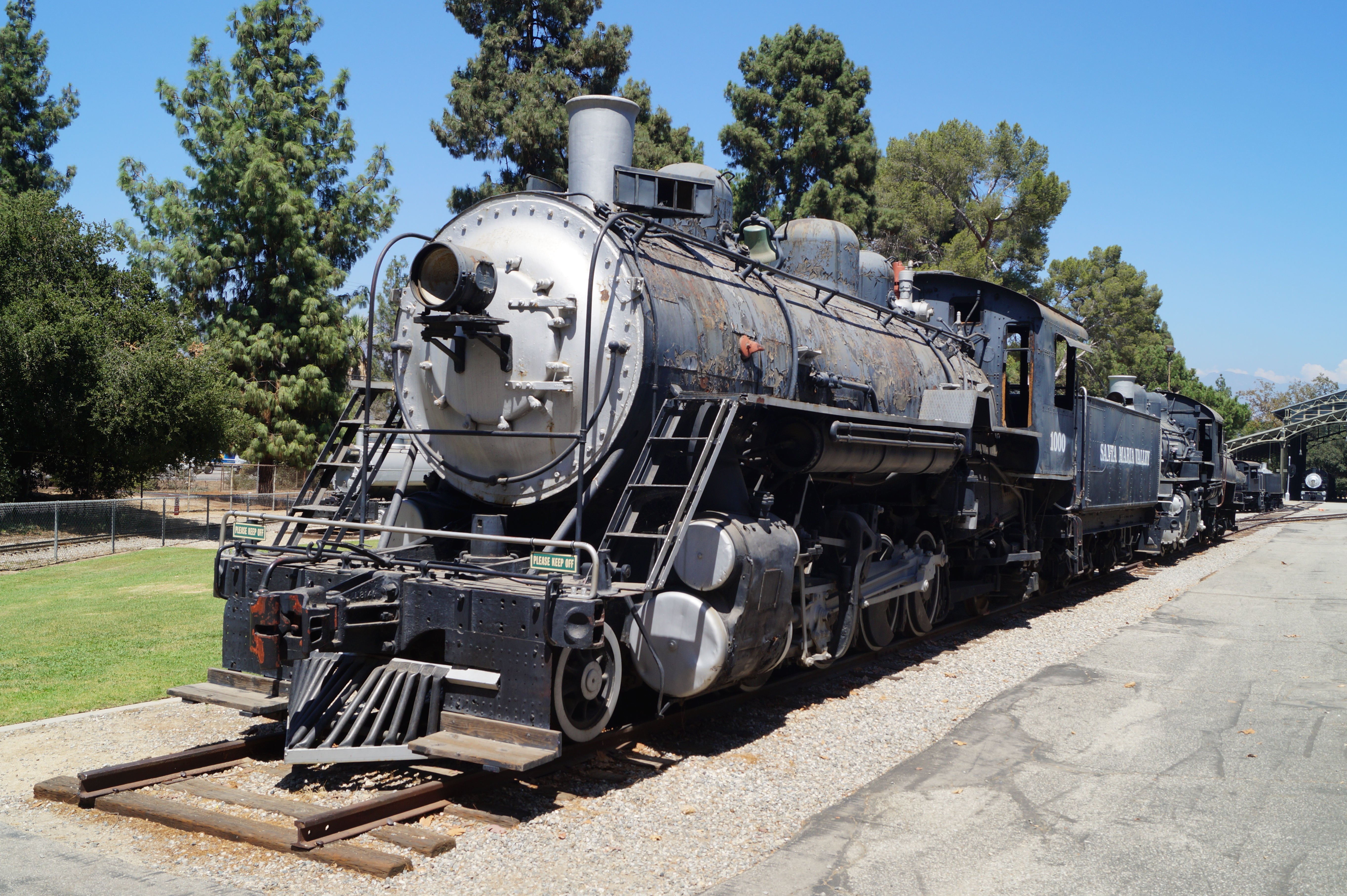 Travel Town Museum is a transport museum dedicated in the northwest corner of Los Angeles, California's Griffith Park. The history of railroad transportation in the western United States from 1880 to the 1930s is the primary focus of the museum's collection, with an emphasis on railroading in Southern California and the Los Angeles area.